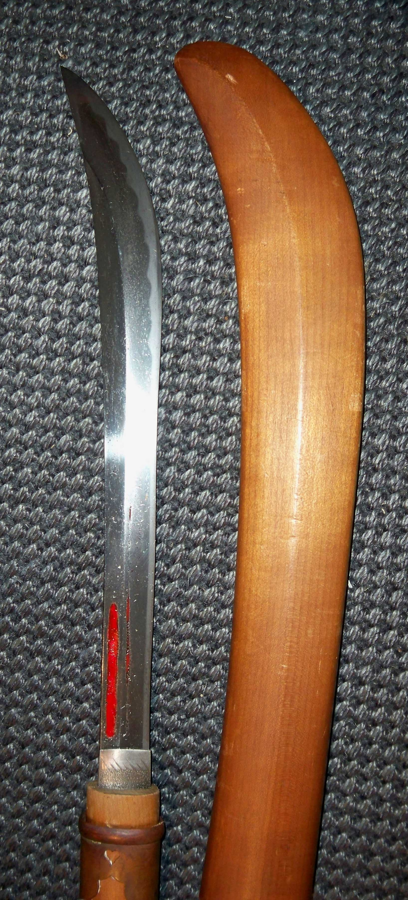 Antique Japanese (samurai) naginata.